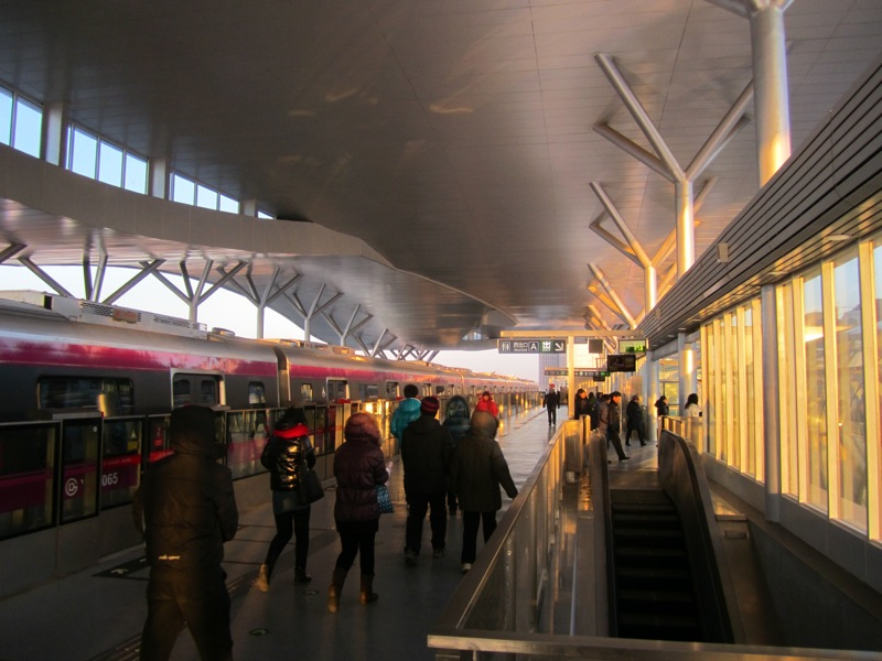 Beijing Subway Yizhuang Line, YIzhuangqiao Station